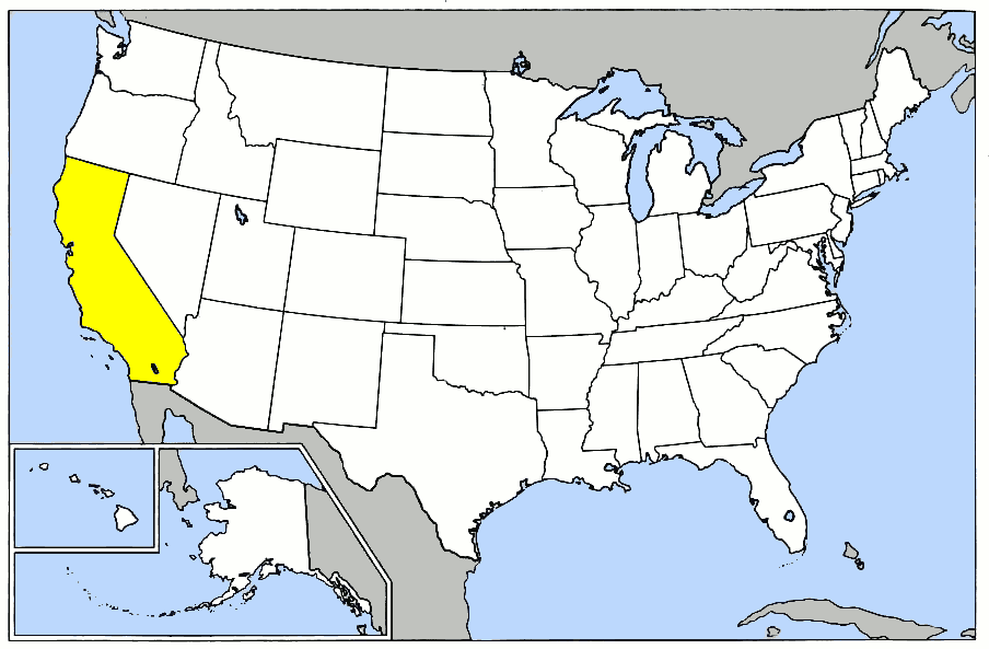 35th Flying Training Wing (World War II) - Map. Based upon for basemap; Lineage and History of 31st Flying Training Wing (World War II); United States Air Force Historical Research Agency Document, Maxwell AFB, Alabama